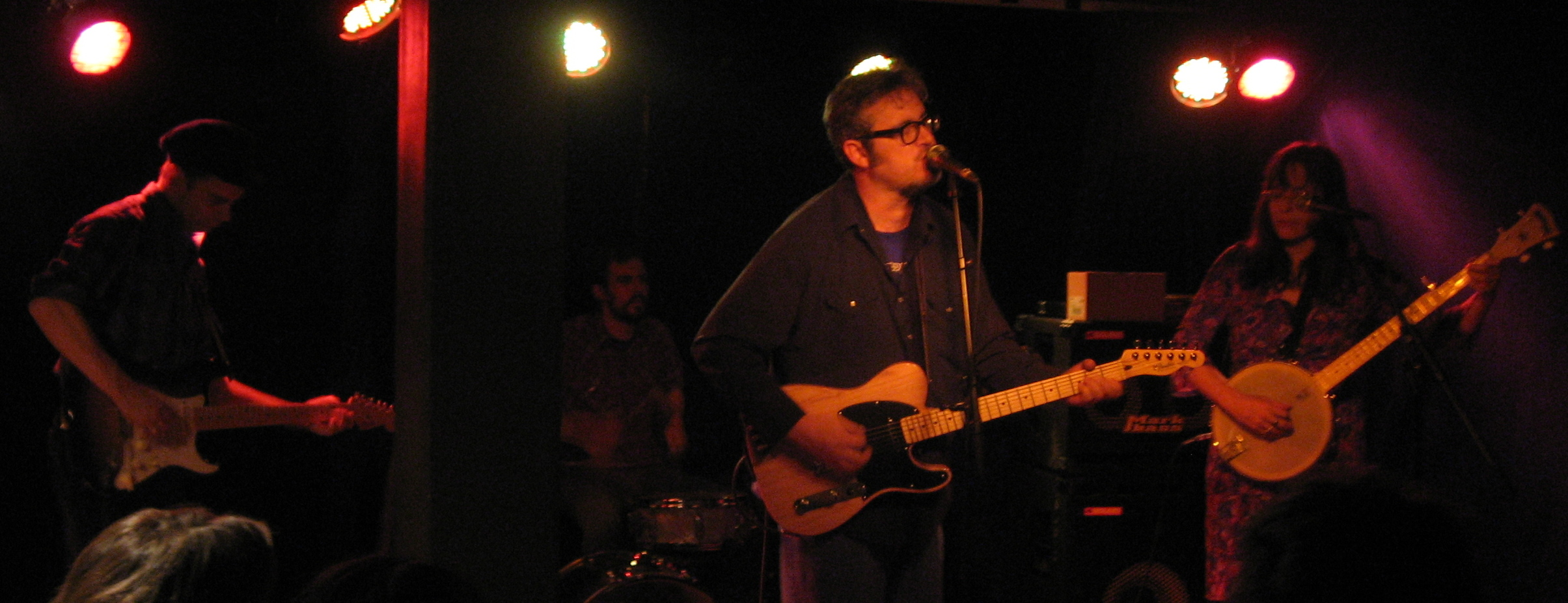 The Handsome Family playing in Bergen.